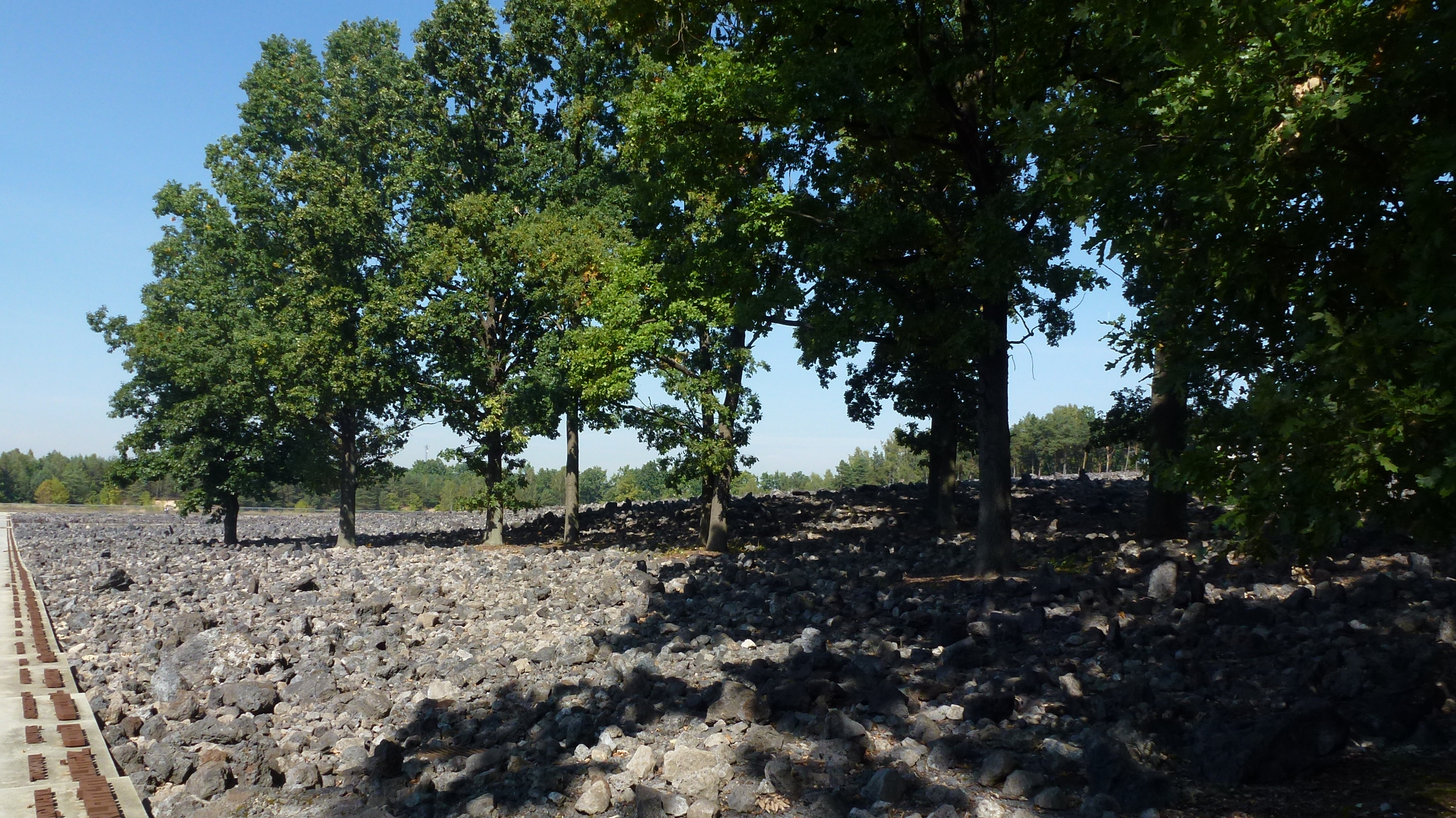 Former German-Nazi extermination camp in Belzec